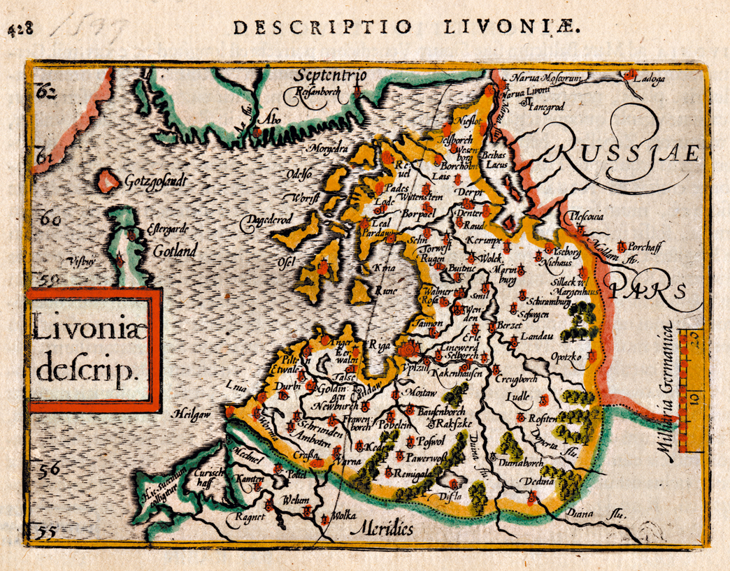 Livoniæ descrip(tio). Published in: Tabularum Geographicarum Contractarum Libri Quinque by Petrus Bertius in Amsterdam. Copper engraving, ca 1:9 700 000, 9 x 12 cm.